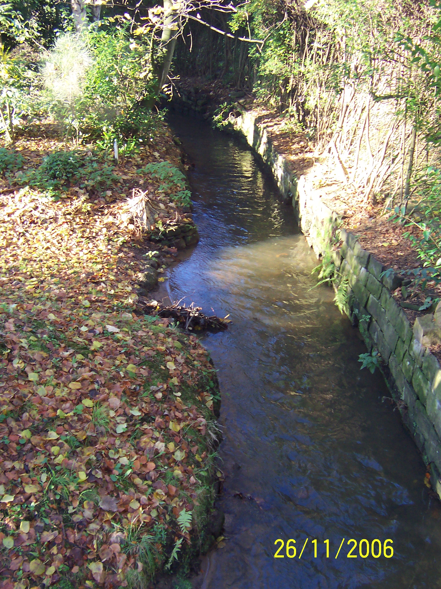 The stream running through Eccleston